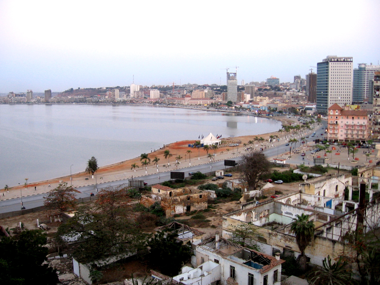 View of the marginal of Luanda, 2010